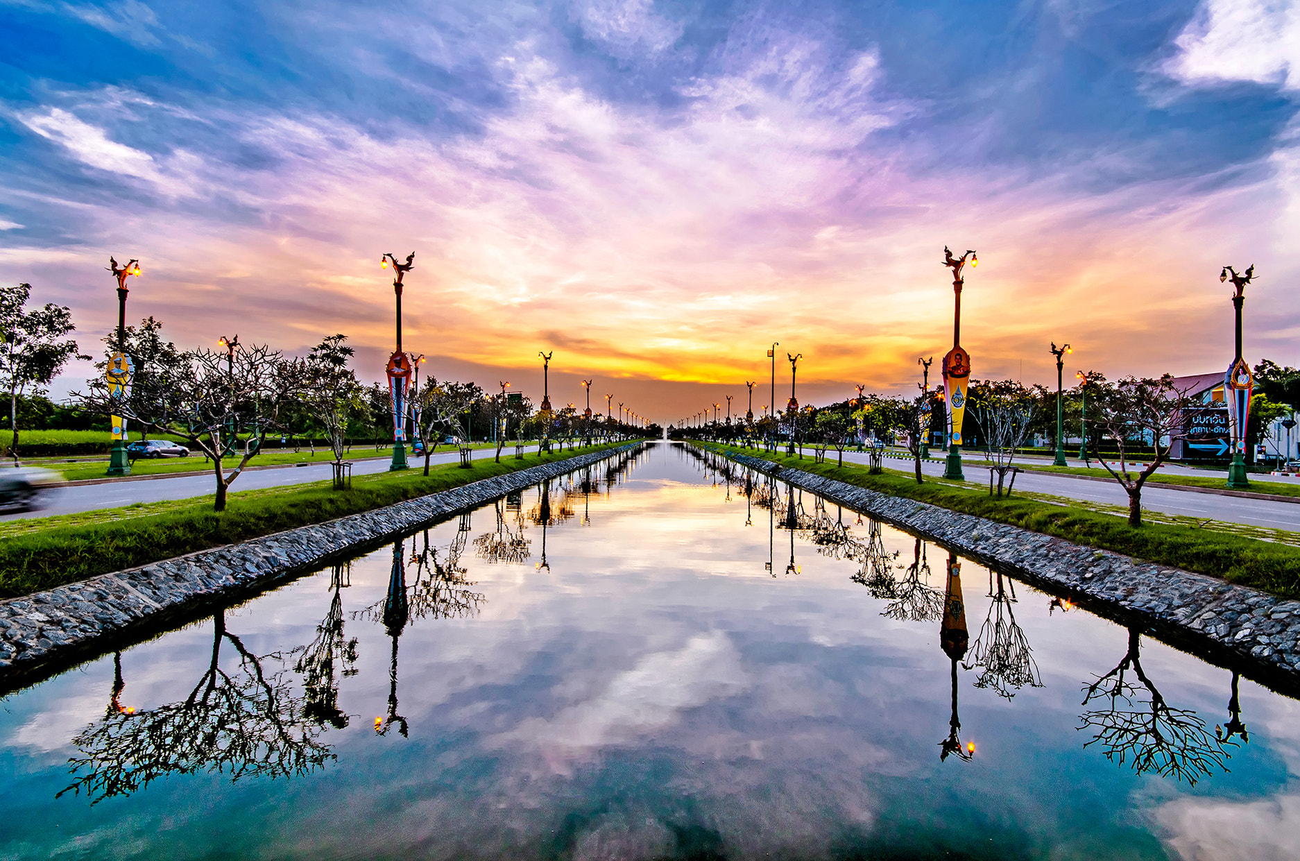 500px provided description: Utthayan Road